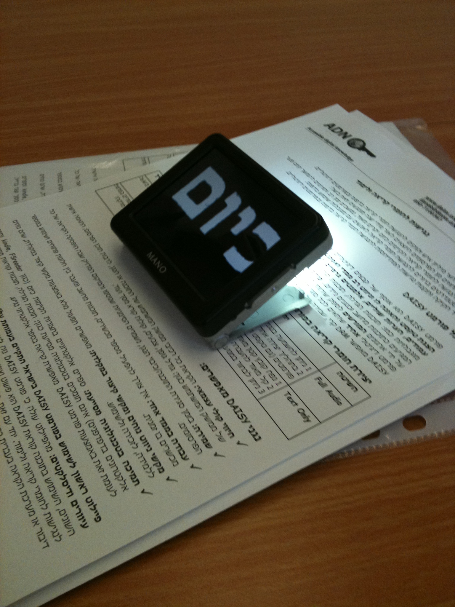 A mobile Closed-circuit television (CCTV) for reading assistance for persons with low vision